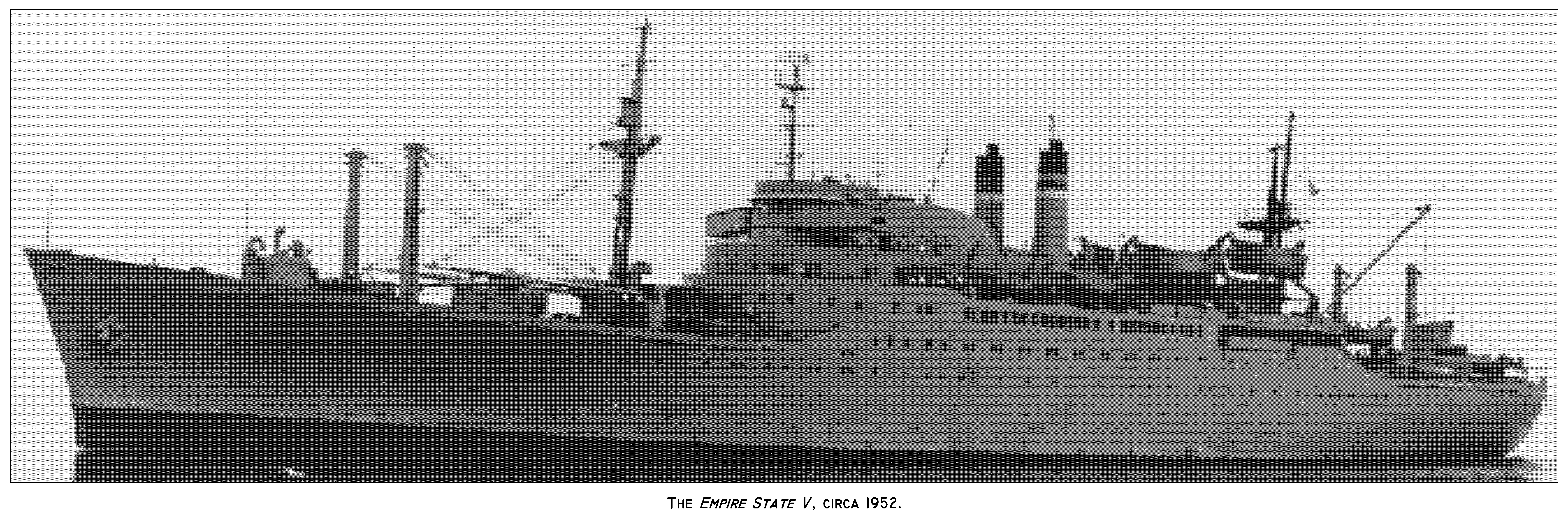 School training ship Empire State V, about 1962